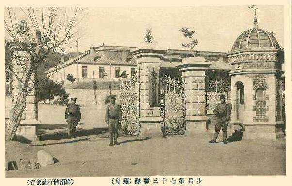 Old postcard depicting IJA 73rd Infantry Regiment HQ in Ranam, North Hamgyong Province, Korea